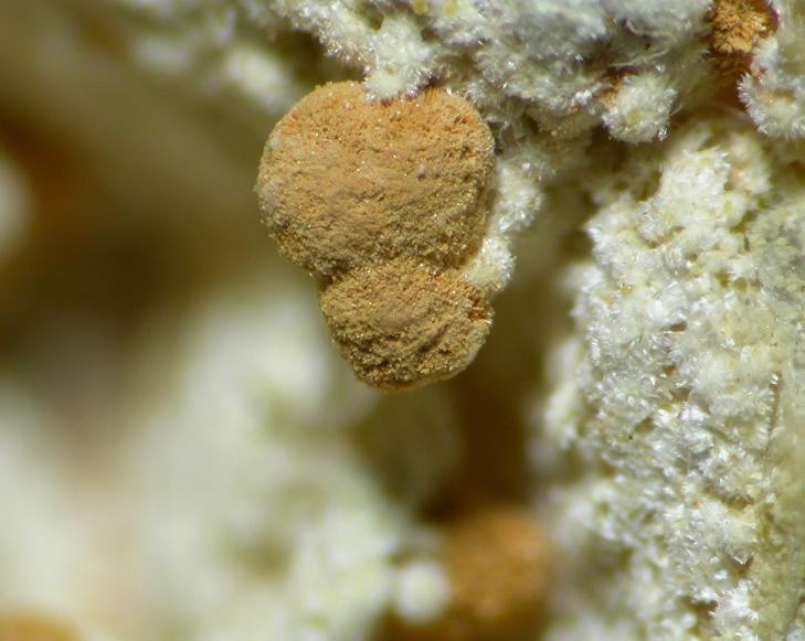 Ruifrancoite, Meurigite-K Locality: Sapucaia Mine, Sapucaia do Norte, Galiléia, Doce valley, Minas Gerais, Southeast Region, Brazil (Locality at ) Brown Ruifrancoite spheres together with yellowish-white hairy Meurigite. Field of view 4 mm. Specimen and photo Leon Hupperichs.